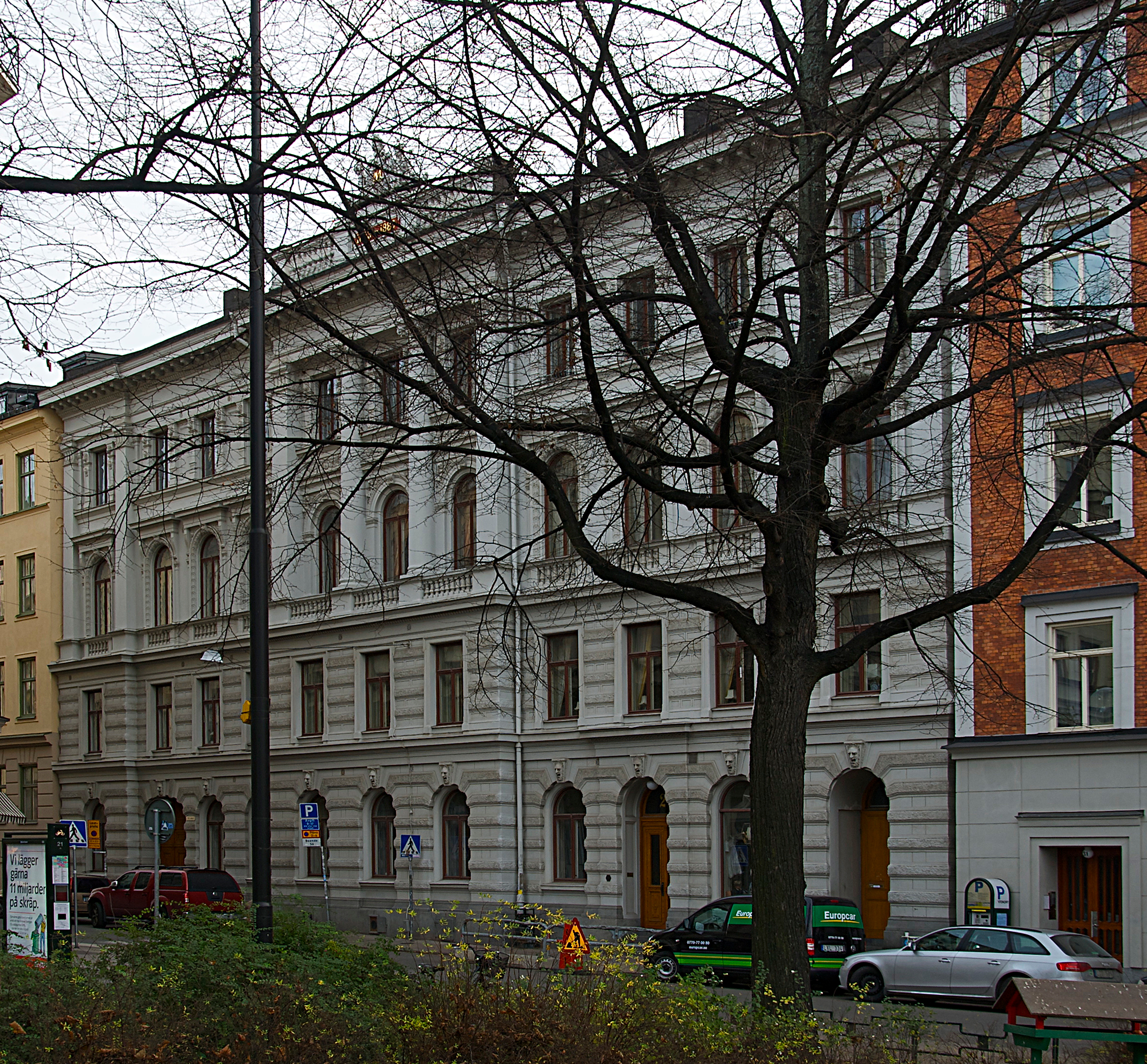 Monténska huset, november 2011.